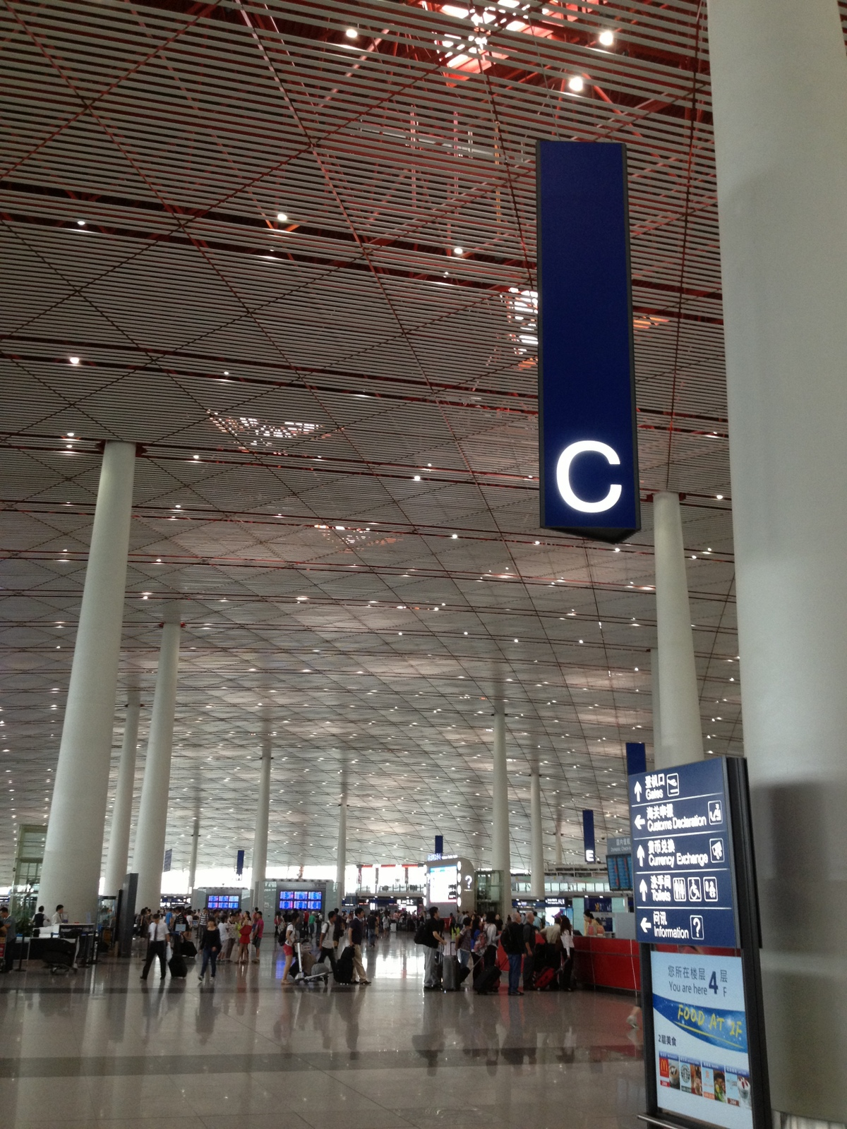 Inside view of Beijing Capital International Airport's Terminal 3.